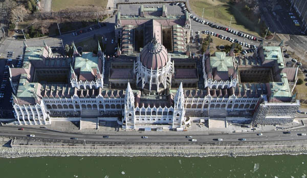 Hungarian Parliament Building, aerial photography